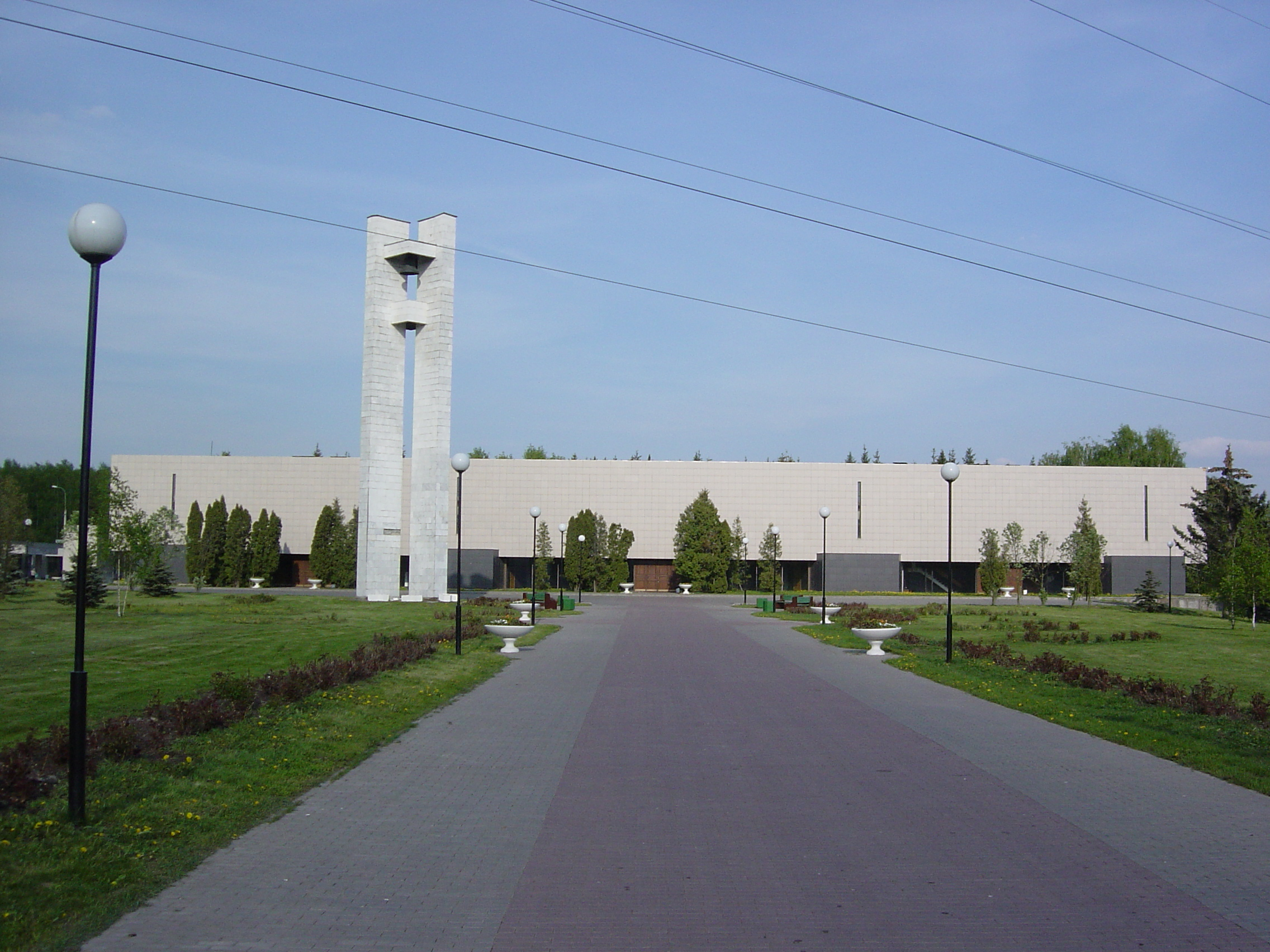 Crematorium on Nikolo-Archangelskoe cemetry in Moscow — the largest crematorium in Europe